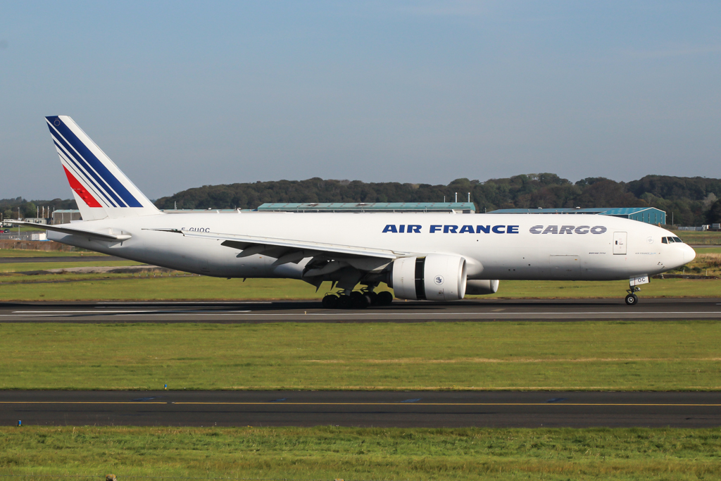 F-GUOC Boeing 777F Air France Cargo at Prestwick Airport